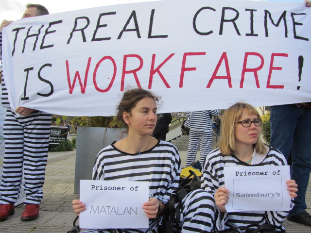 Workfare